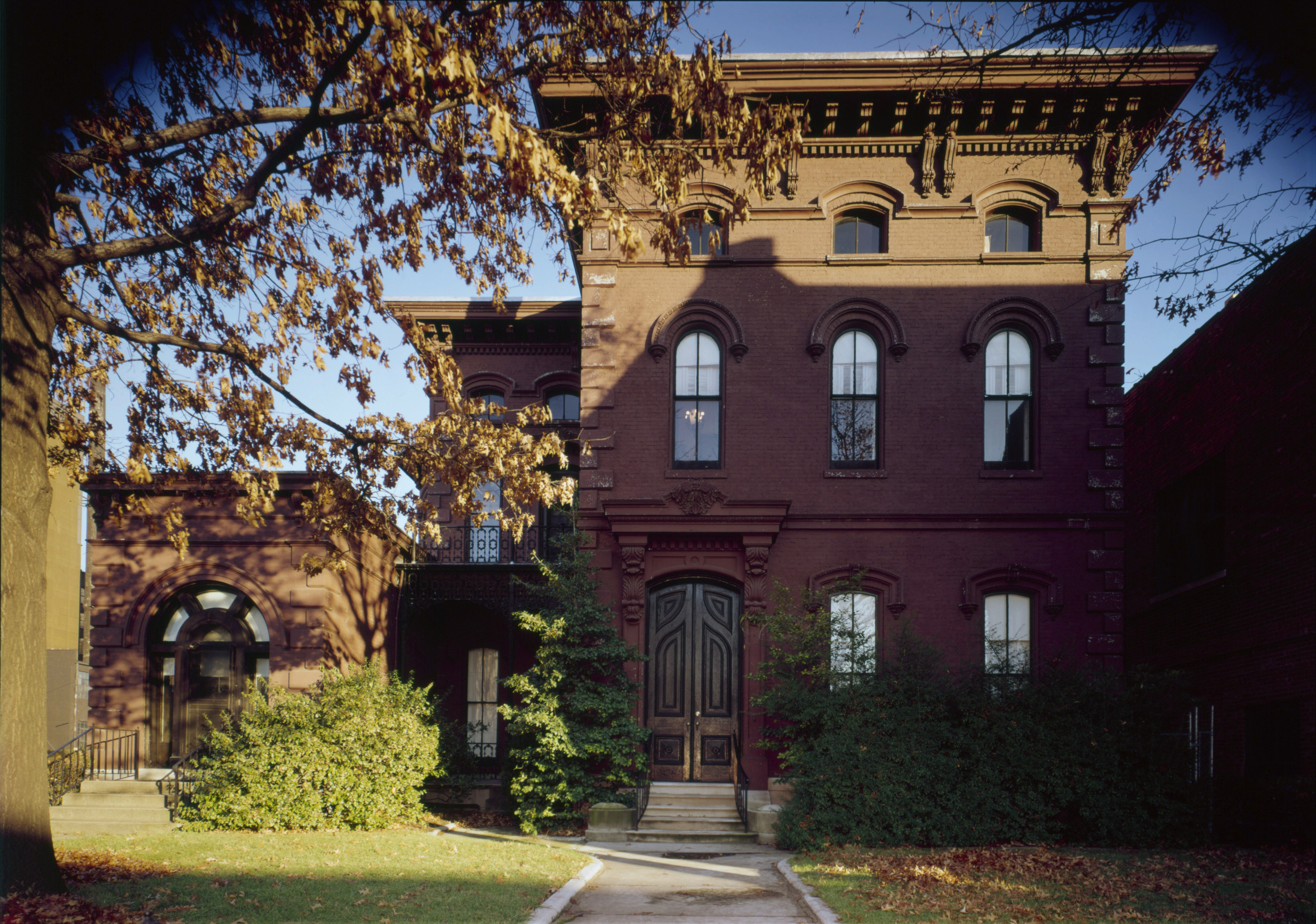 The Ronald–Brennan House in Louisville, Kentucky Original number was "HABS KY,56-LOUV1,9-31", original caption was "General view of the structure, closer, showing west (front) elevation."